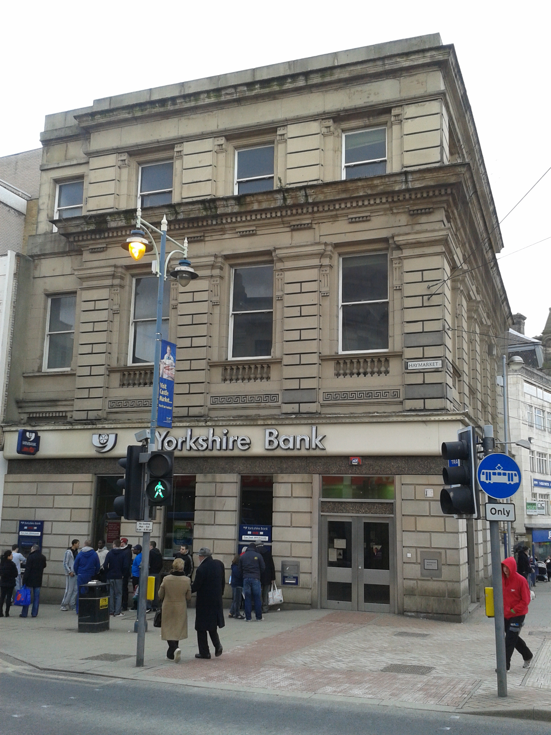 2 Haymarket in Sheffield, seen from the west. Yorkshire Bank, former post office and stock exchange.